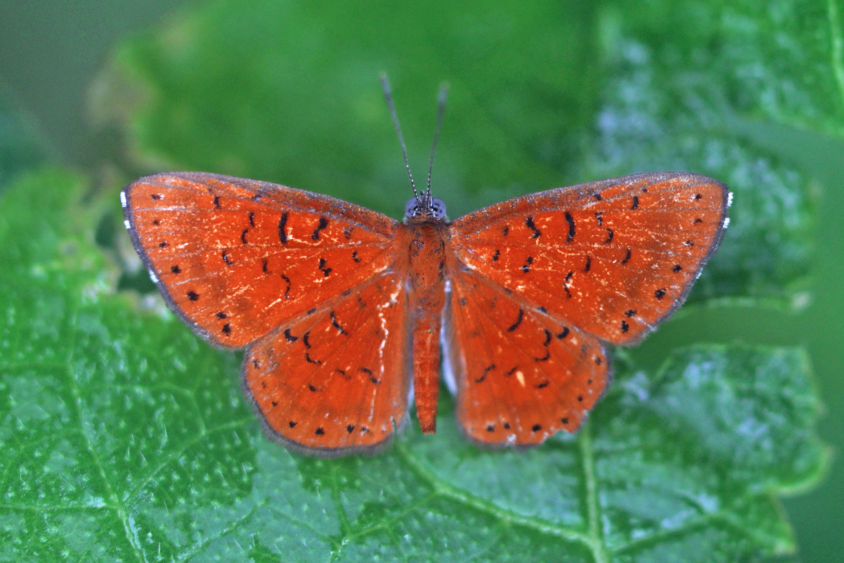 Lucianus Metalmark (Calospila lucianus), Anton Valley, Panama